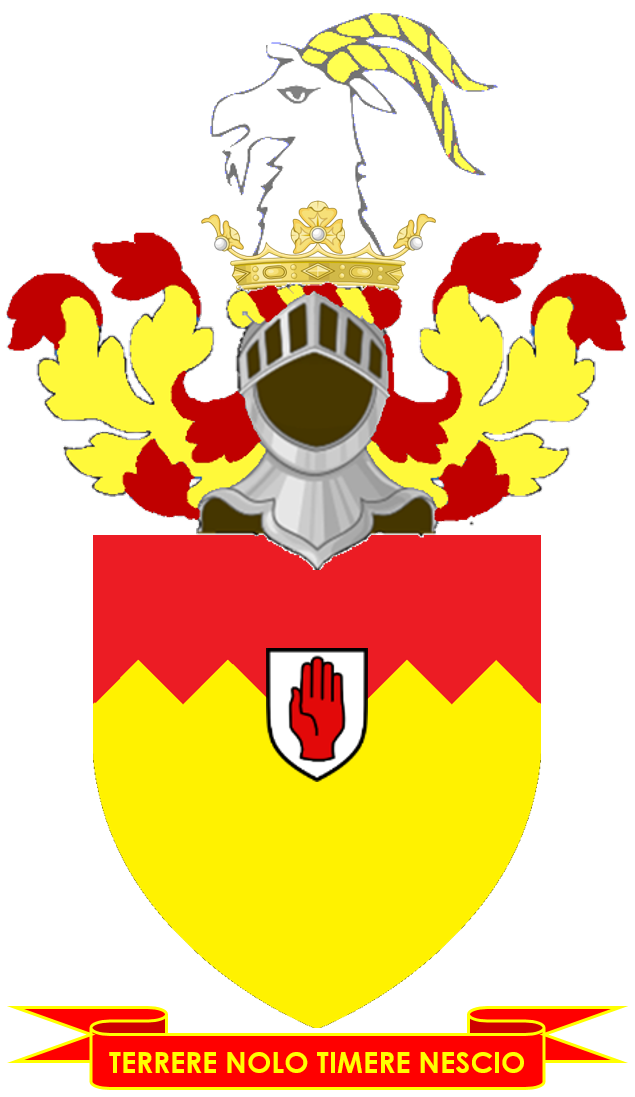 The armorial achievement of the Dyer baronets of Tottenham